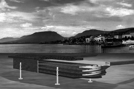 Der abgesenkte Stahl-Container fasst 500 Abstellplätze und ist durch 2 Tunnelröhren mit dem Land verbunden